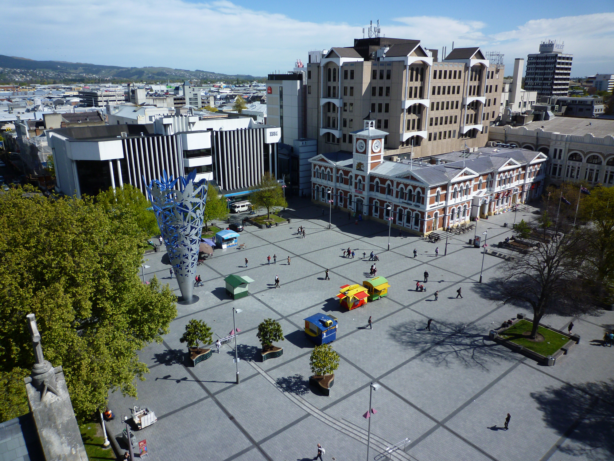 View of Cathedral Square, Christchurch, New Zealand, taken from the top of ChristChurch Cathedral's spire.